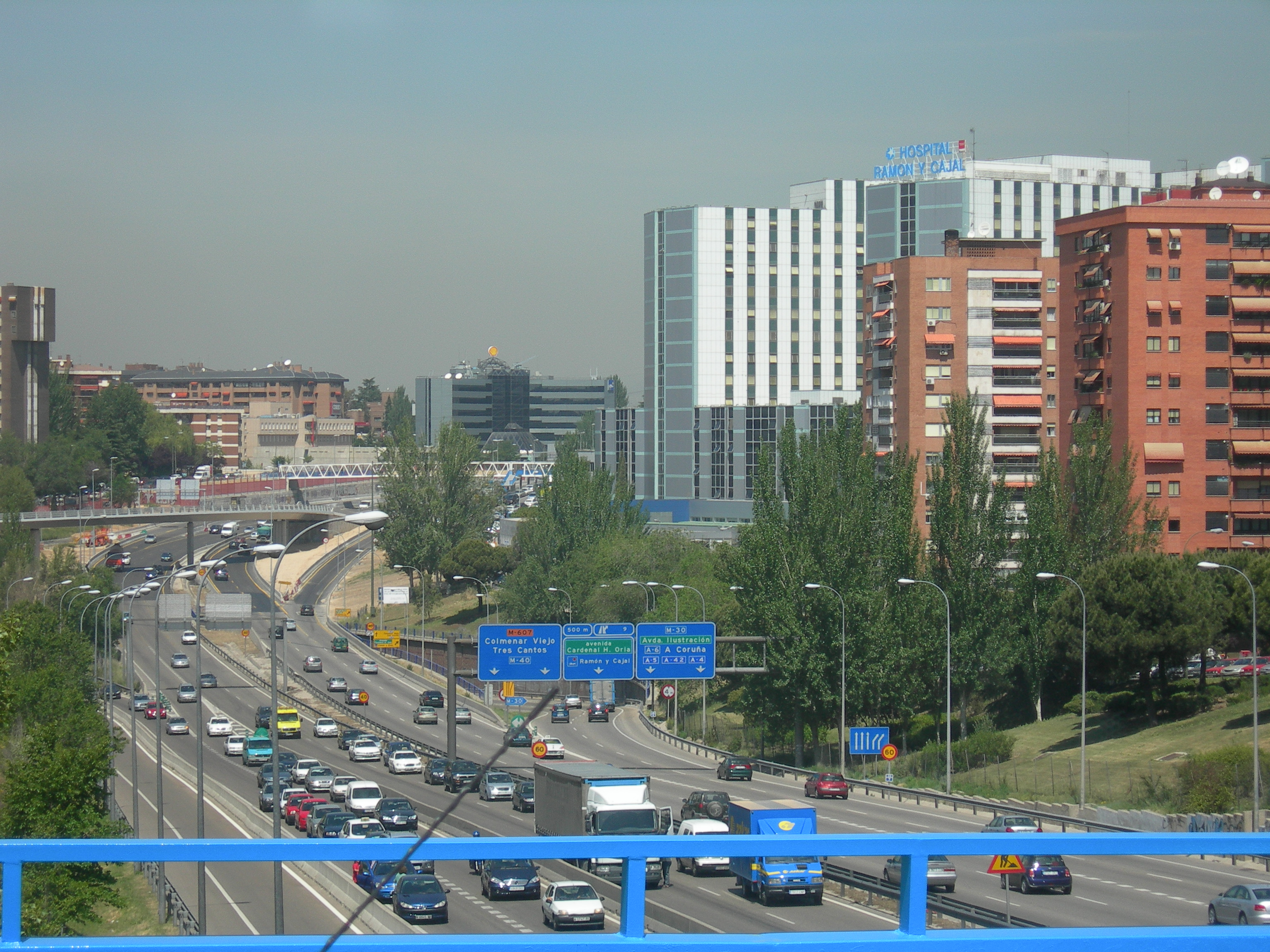 Ramón y Cajal Hospital in Madrid, Spain.